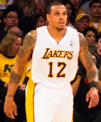 Brown in match LAL-Heat Camera: Panasonic DMC-FZ40 License on Flickr (2011-02-16): CC-BY-2.0 Flickr tags: miami heat, basketball, alex trebek, shannon brown, los angeles lakers